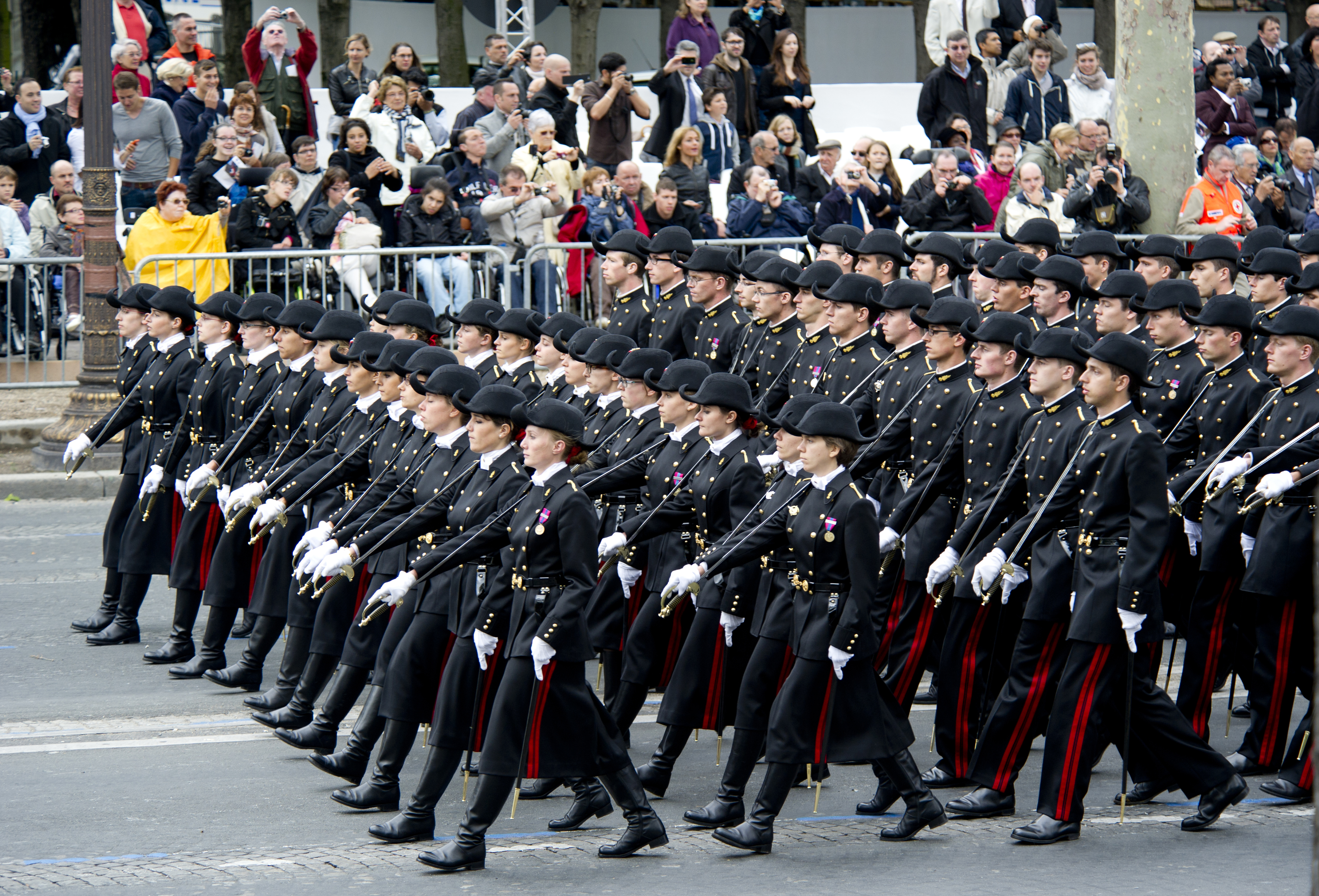 PARIS -- Students in the French Polytechnique university march in the 2012, 14th of July parade. (U.S. Air Force photo/Staff Sgt. Benjamin Wilson)